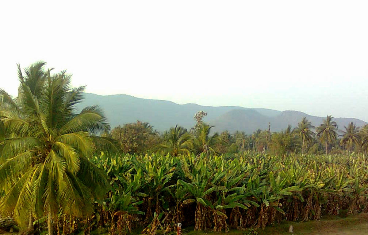 View of Banana field's on Varaha River Basin at Etikoppaka of Visakhapatnam District